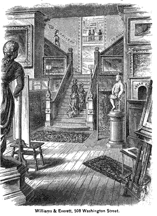 Gallery of Williams & Everett, art dealers; Washington St., Boston